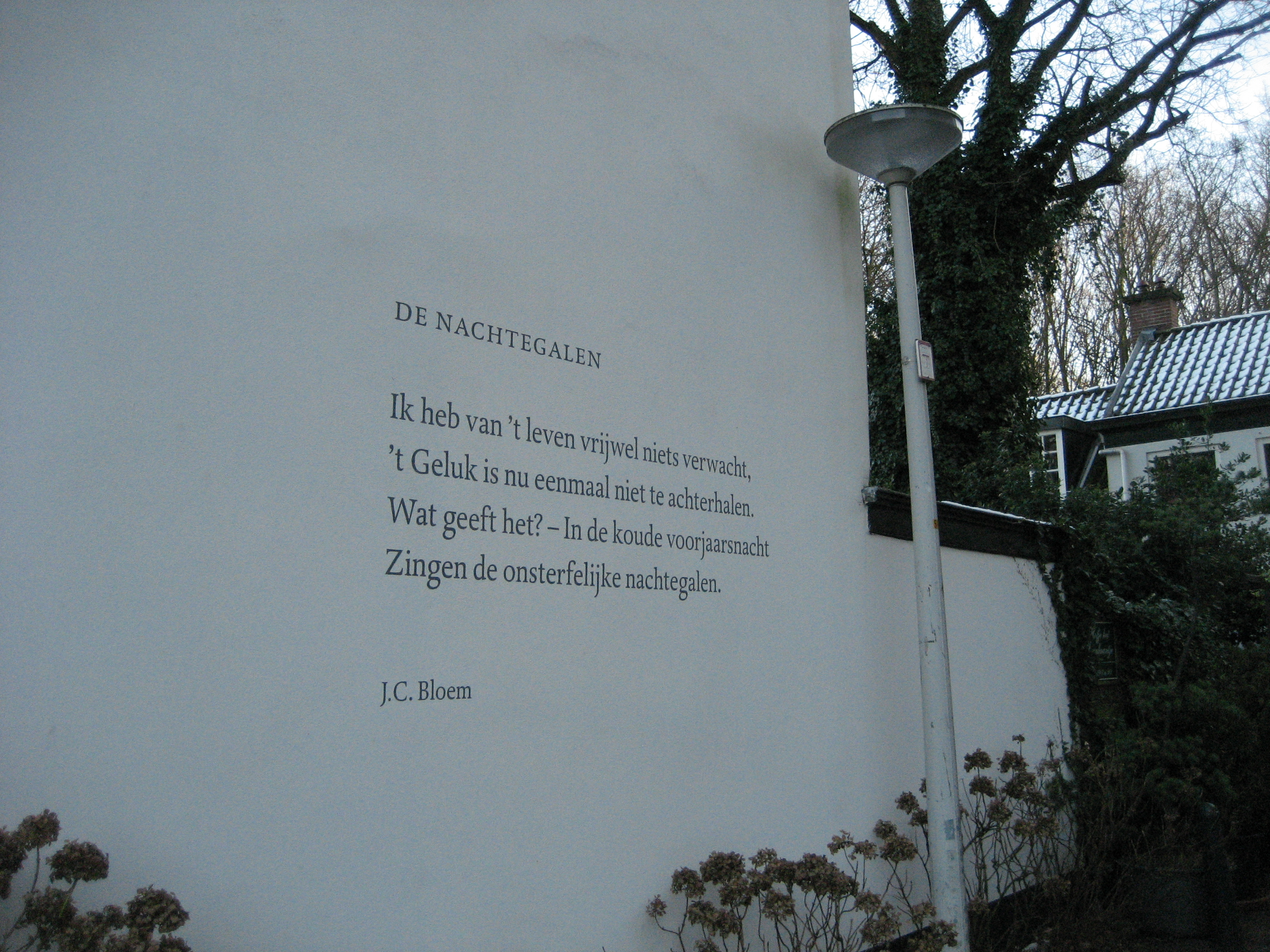 Poem Nachtegalen by J.C. Bloem. Javalaantje, The Hague (The Netherlands), since Sept 2013. Letter: DTL Dorian; typograaf: Elmo van Slingerland